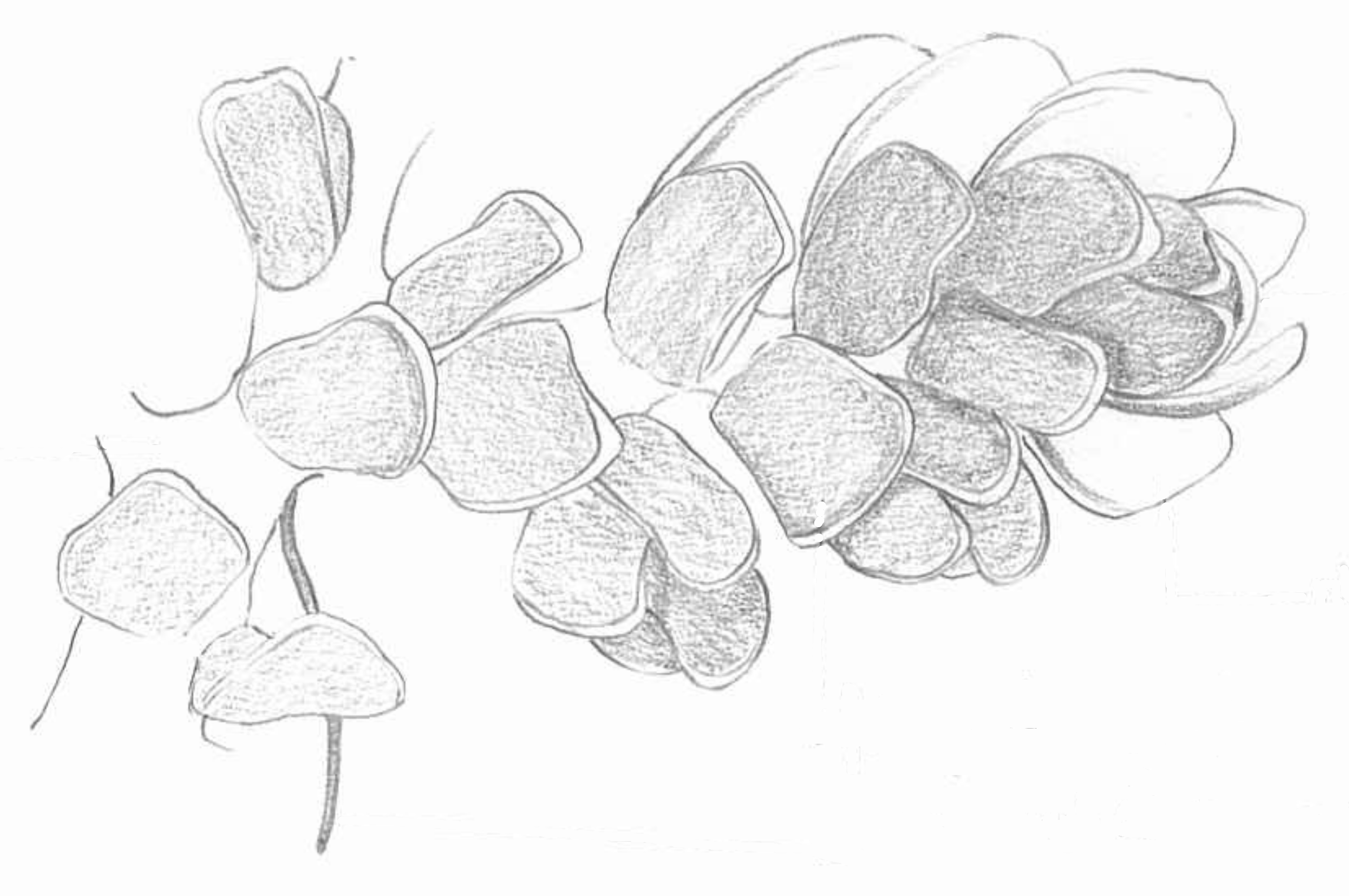 Drawing of Azolla filiculoides, Order Salviniales, seen from above, about 5 mm as drawn. The upper layer of leaves perform photo synthesis and are green, the lower layer lacks chlorophyll. In the left undercorner a single root is depicted, the top of the sprout is on the right.